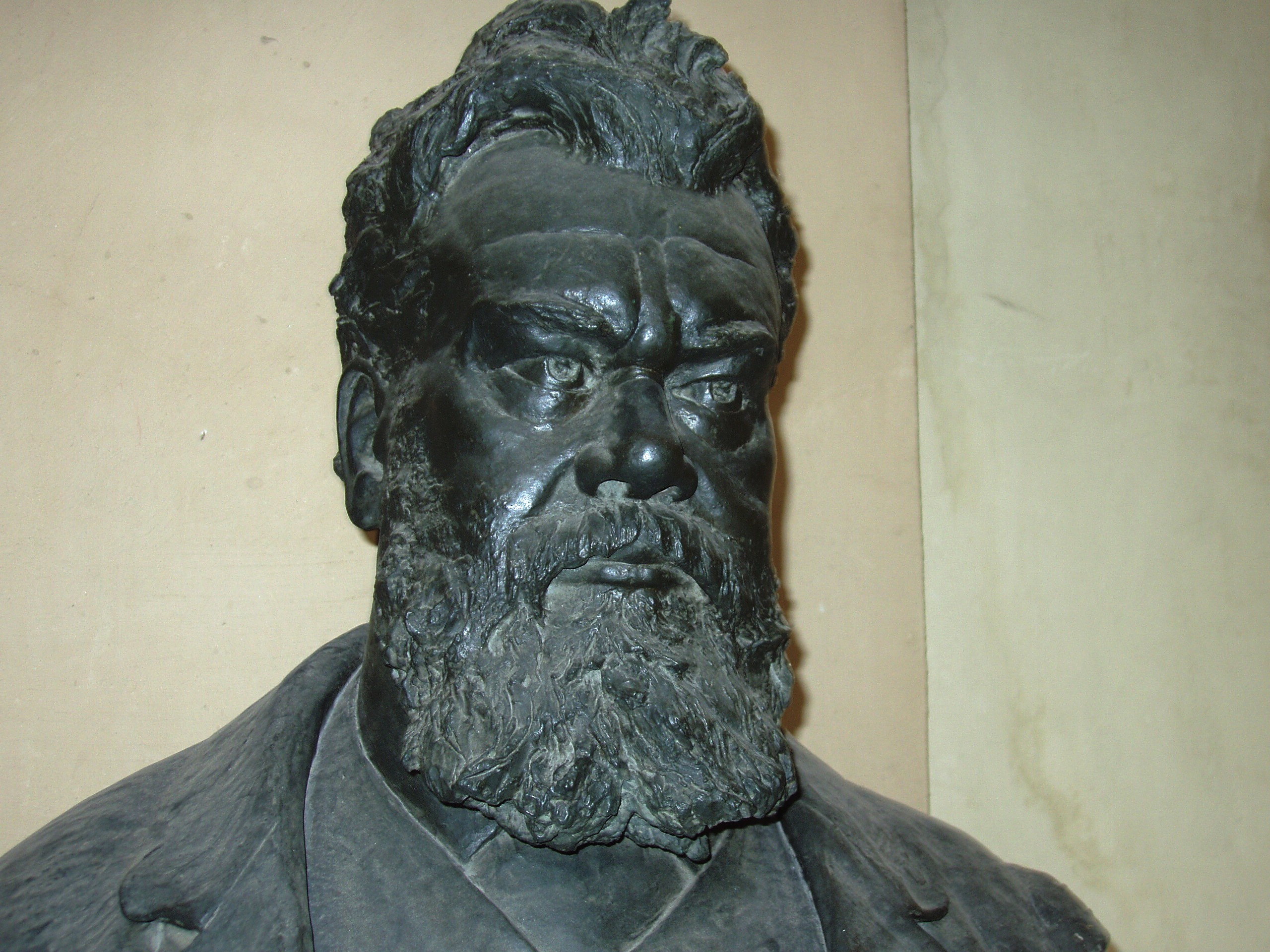 Bust of Ludwig Boltzmann, physicist, in the courtyard arcade of the main building, University of Vienna, Austria. Photograph taken by me, May 2005.